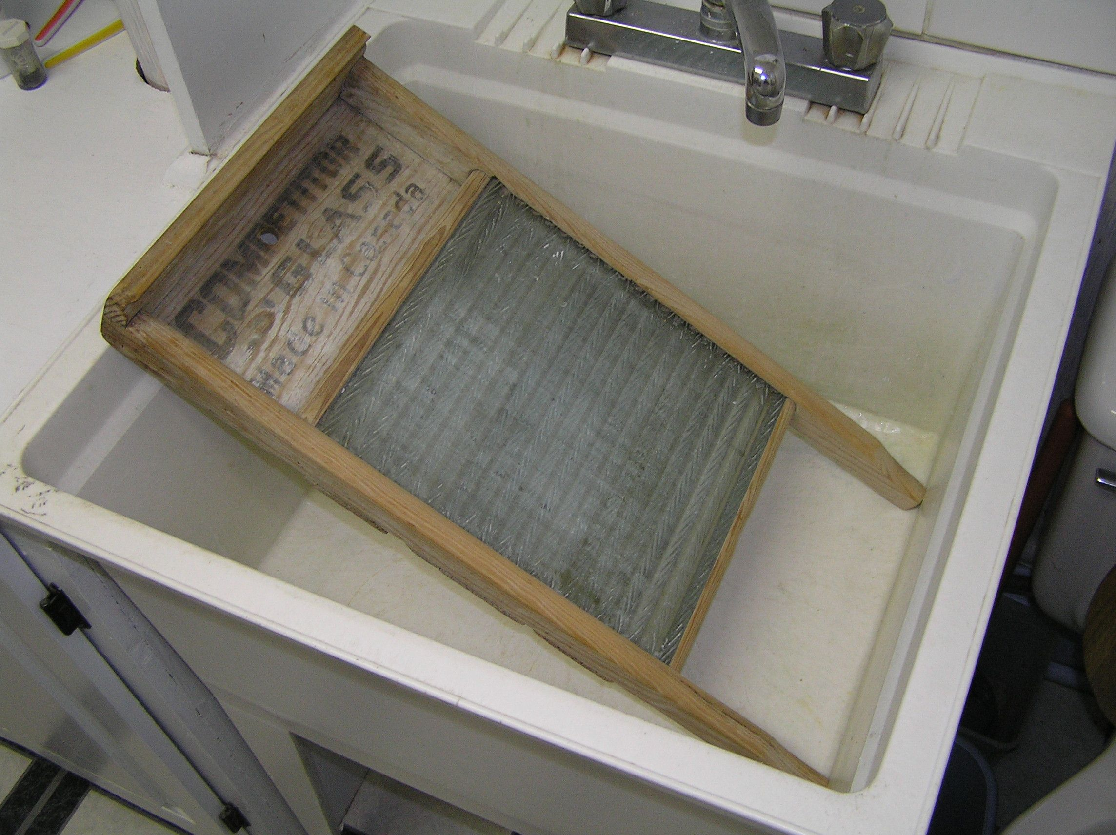 Glass washboard, early twentieth century, photo by Yannick Trottier 2005